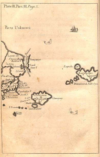 Map of Lugnagg, Glubbdubdrib, Laputa, and Japan, for the 1726 edition of Jonathan Swift's Gulliver's Travels (or, Travels into several remote nations of the world)